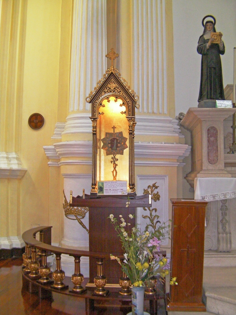 This photo was taken by myself in St. Joseph's Church, Macao in July, 2008